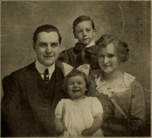 Photograph of Harry Benham, wife Ethyle Cooke Benham, and children Leland and Dorothy, appears on page 499 of the December 21, 1912 issue of Motography.